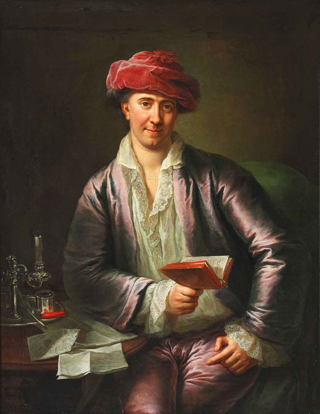 Portrait of Heinrich Albert Thalbitzer (1737–1785), Prussian consul in Helsingør. He is seated at a table, wearing a violet coat and pants and a lace shirt. On the table are a candlestick and a letter addressed “To Mr. Henry Thalbitzer Mercht (Merchant) to London”. He is reading a book with the title The Guardian. Inscribed on the old canvas: Gemahlt von R. von Gasc geb. von Lisiewsky Berlin 1762. The painting is relined, and the inscription is therefore hidden. Oil on canvas. 115×88 cm. Purchased by The Museum of National History at Frederiksborg Castle in June 2014 for 90,000 kr.